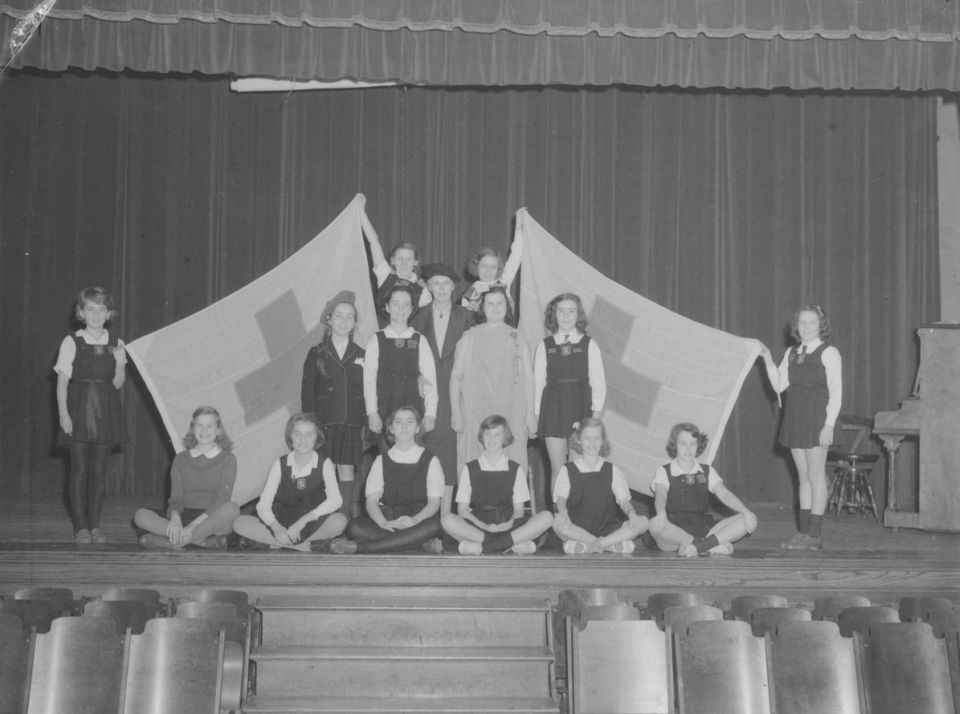 Mrs Mappin, director of "Roslyn School" in Westmount and Mrs. R.B. Shaw, director of the youth section of the Red Cross in Quebec, two flags stand in front of the Red Cross held by schoolgirls.